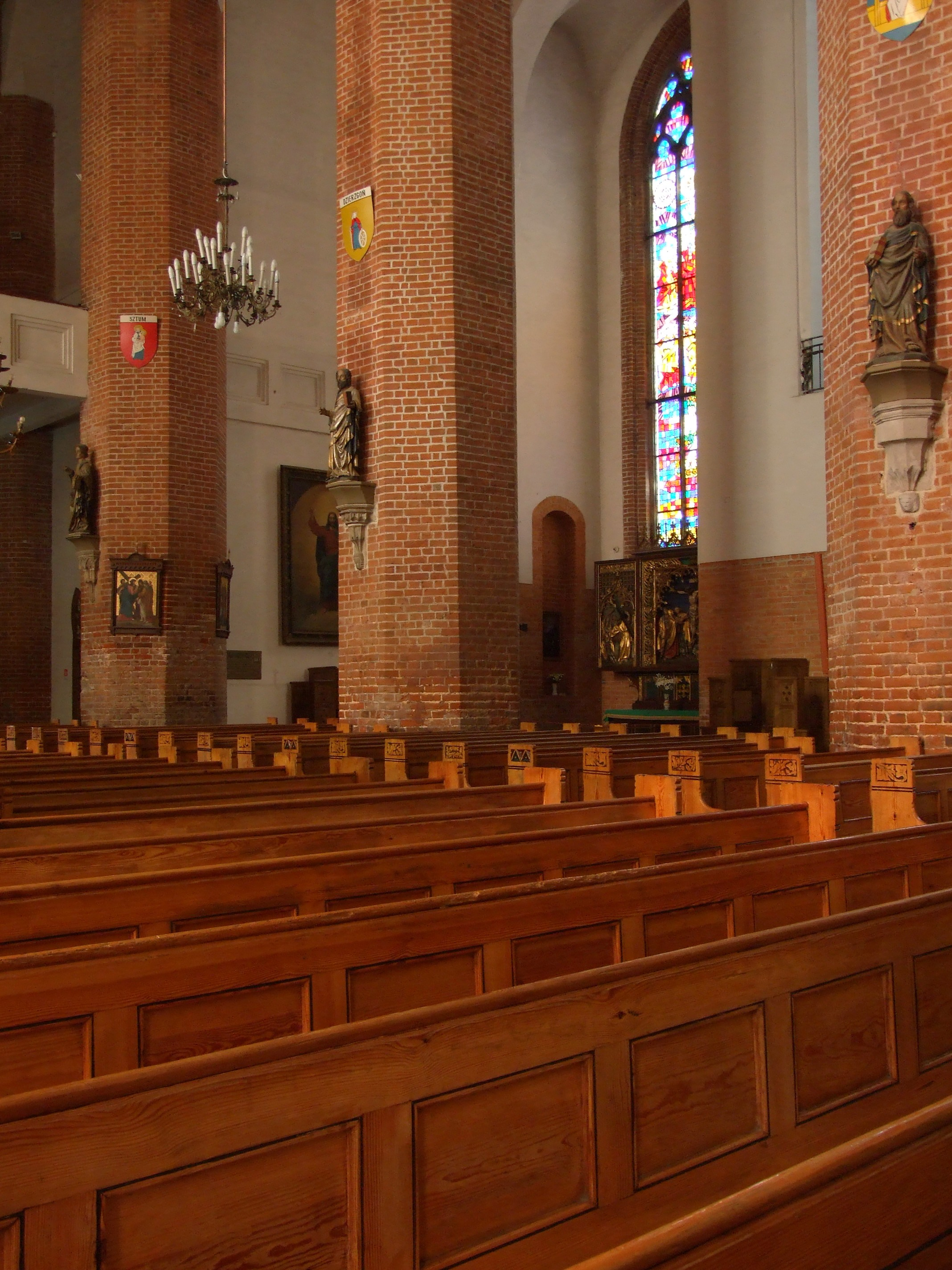 Inside of st. Nicholas church in Elbląg, Poland